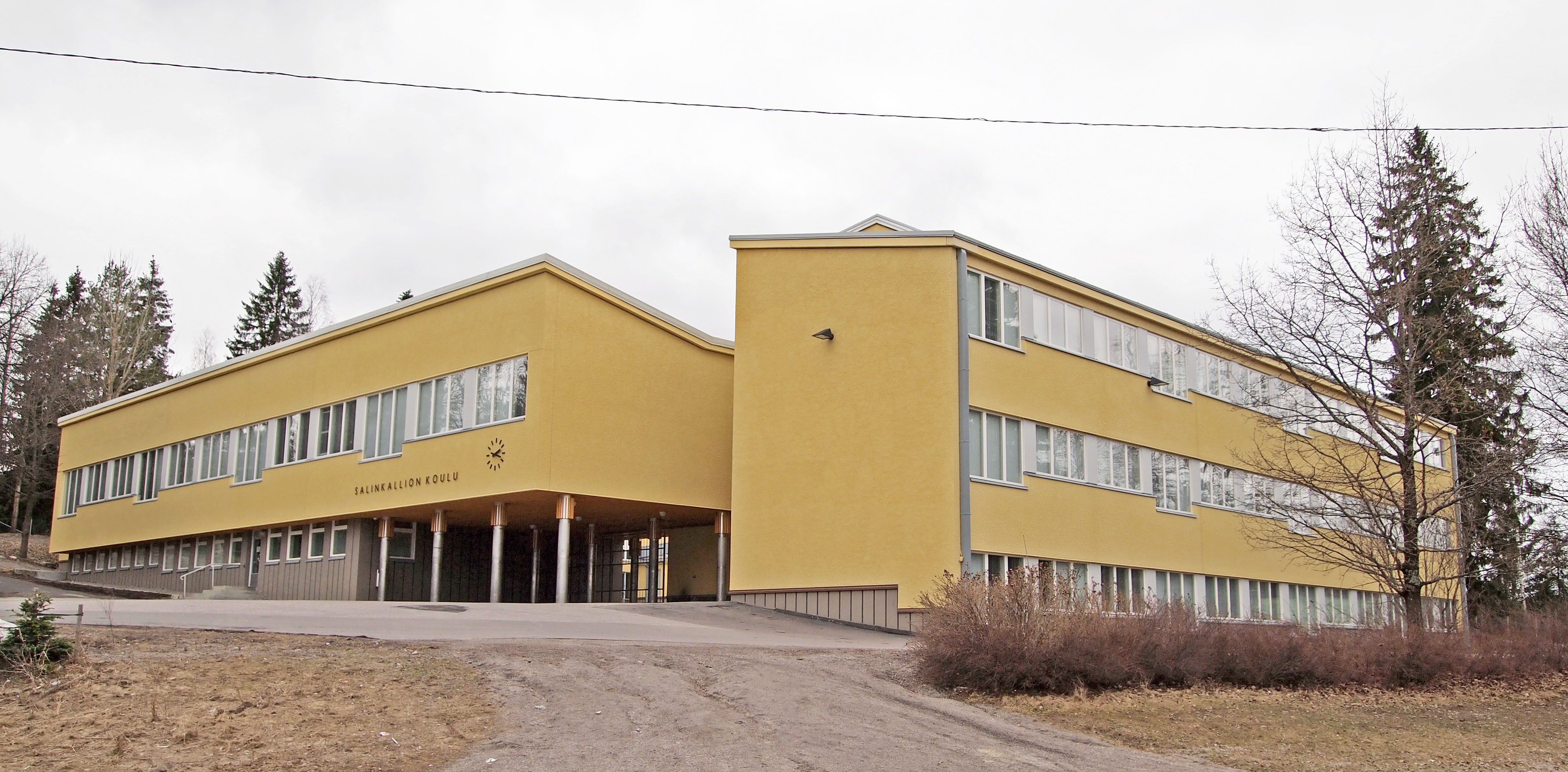 School "Salinkallion koulu" in Lahti.